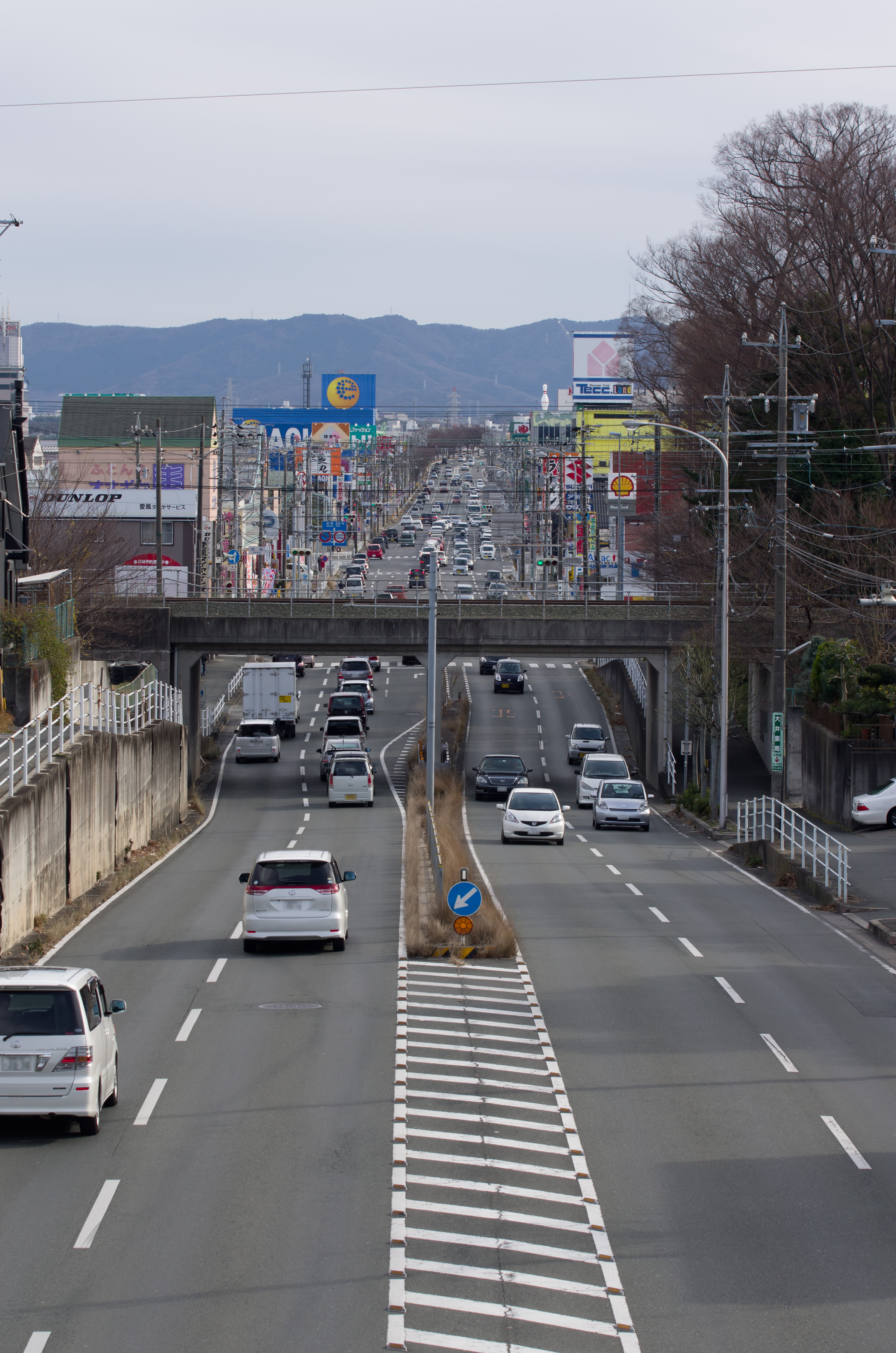 Minami-odori Ave. (Aichi Prefectural Road 400) in Toyokawa, Aichi, Japan. Taken from the side of Ushikubo Elementary School to Masaoka-cho.